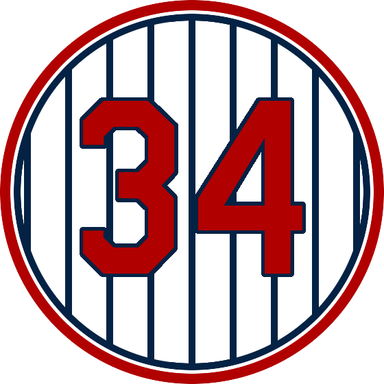 Minnesota Twins 34, representing Kirby Puckett's retired number sign at Target Field.